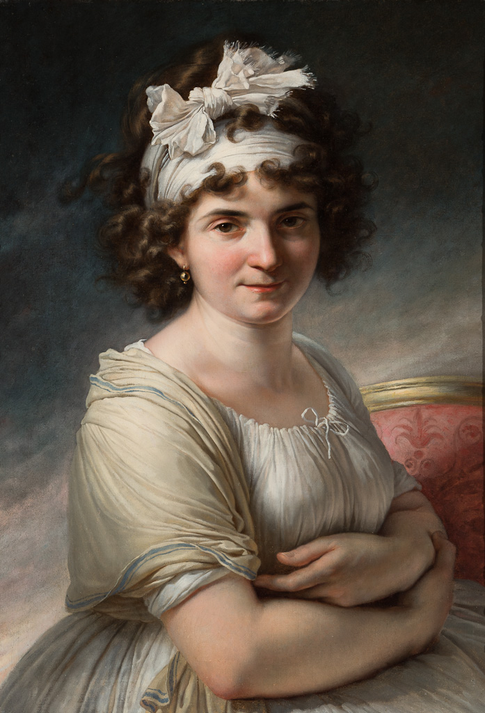 Portrait of Celeste Coltellini, Madame Meuricoffre by Antoine-Jean Gros, about 1790s, oil on canvas, 26¾ × 19½ in. (67.9 × 49.5 cm.), Speed Art Museum